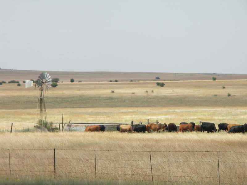 South Africa, Free State, Cattle farm just outside Winburg. South Africa, Free State, Cattle farm just outside Winburg, Free State.